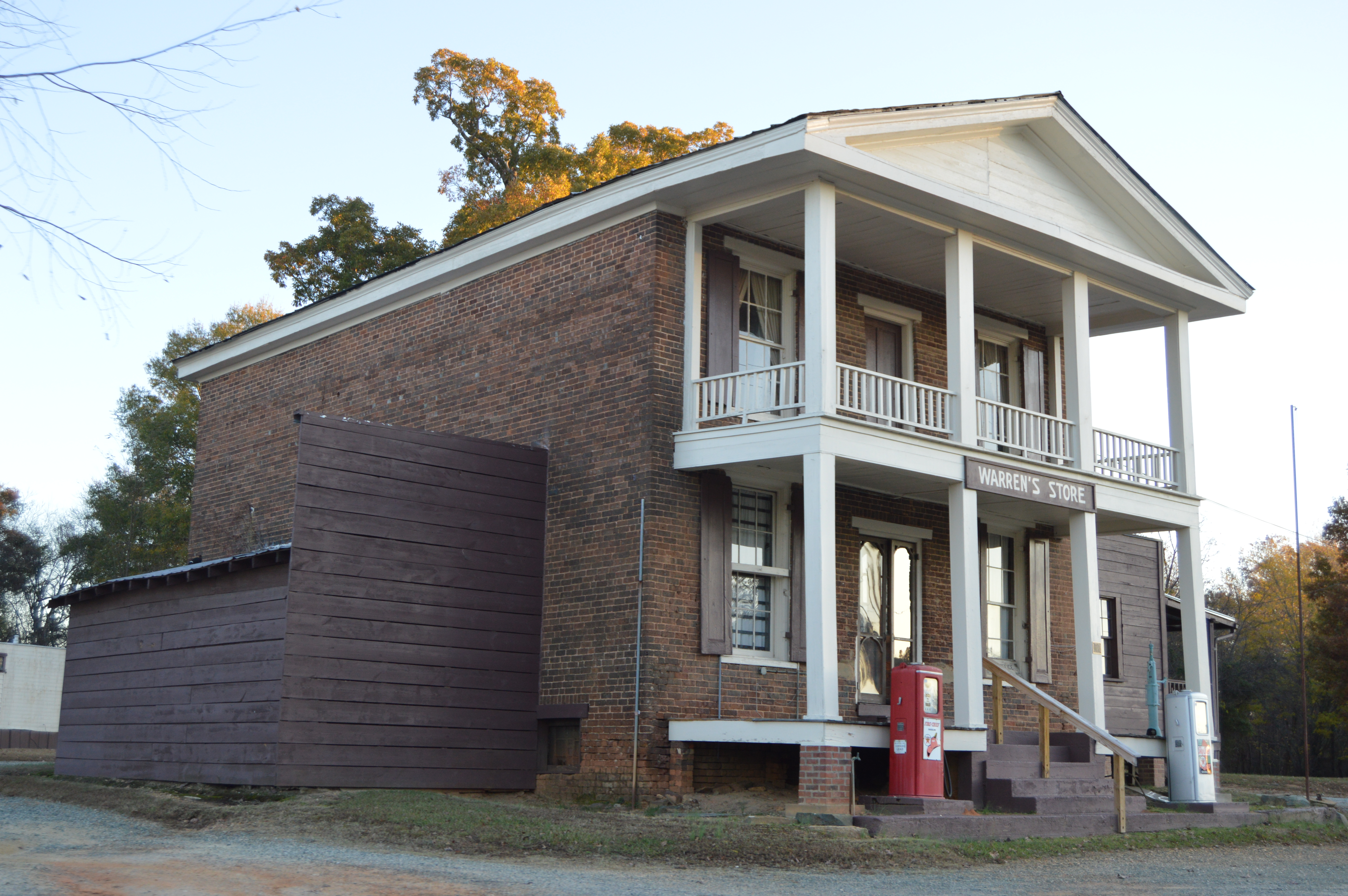 Front and western side of Warren's Store, located on Main Street at Prospect Hill, North Carolina, United States. It and the Warren House across the street are listed on the National Register of Historic Places.